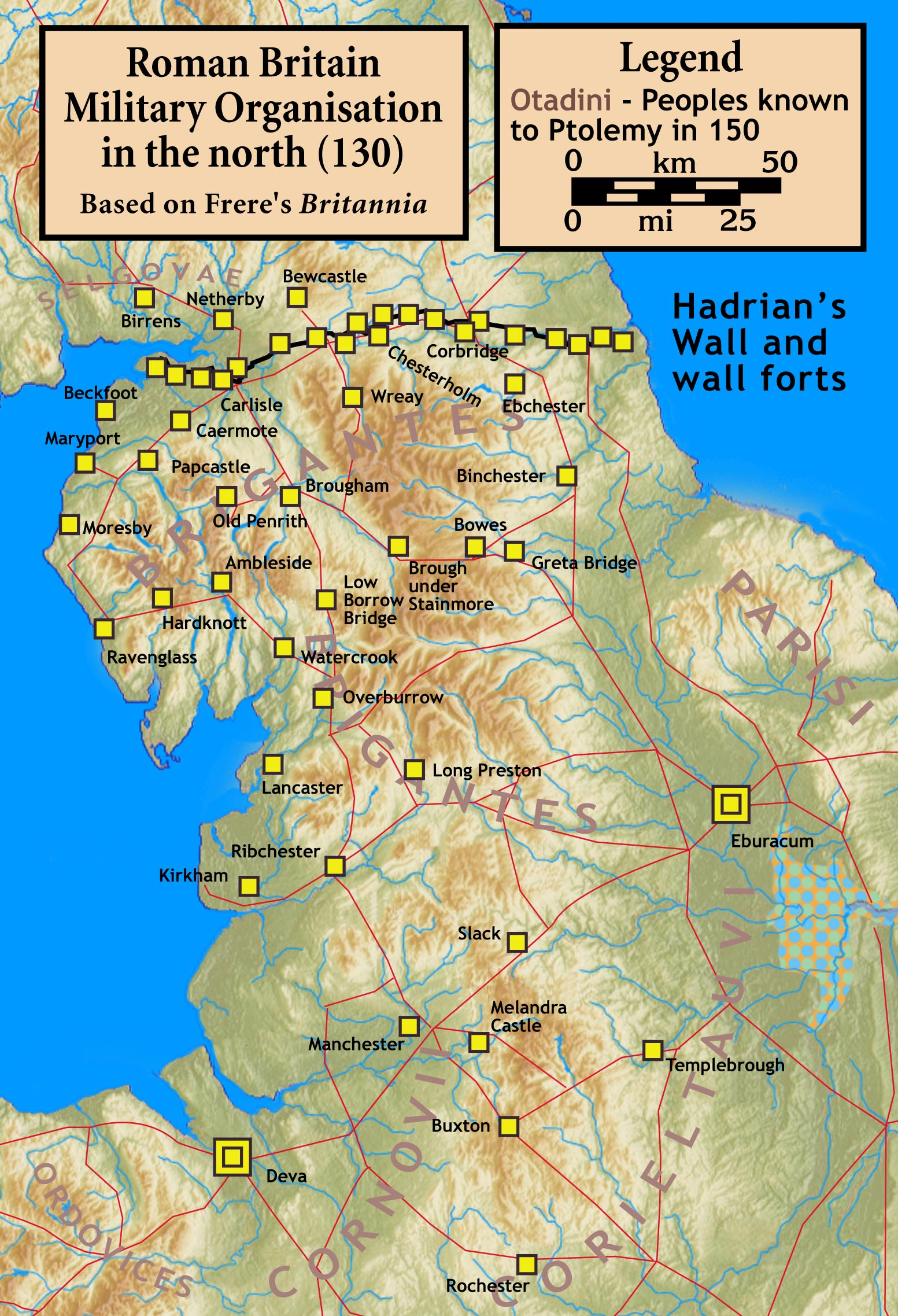 Roman Britain, Military Organisation in the north (130)